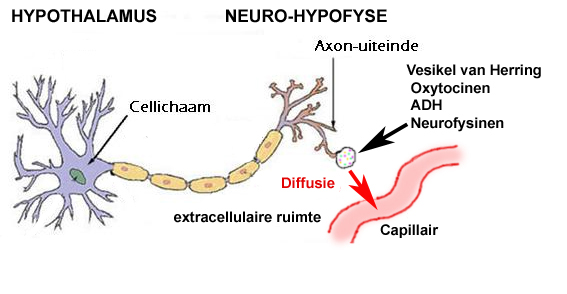 drawing neuro-secretional transport from Hypothalamus to Neuro-Hypofyse